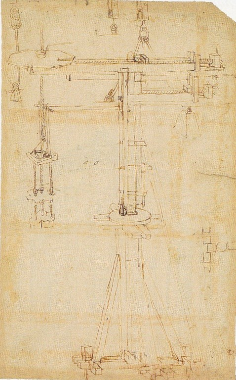 Codex Atlanticus